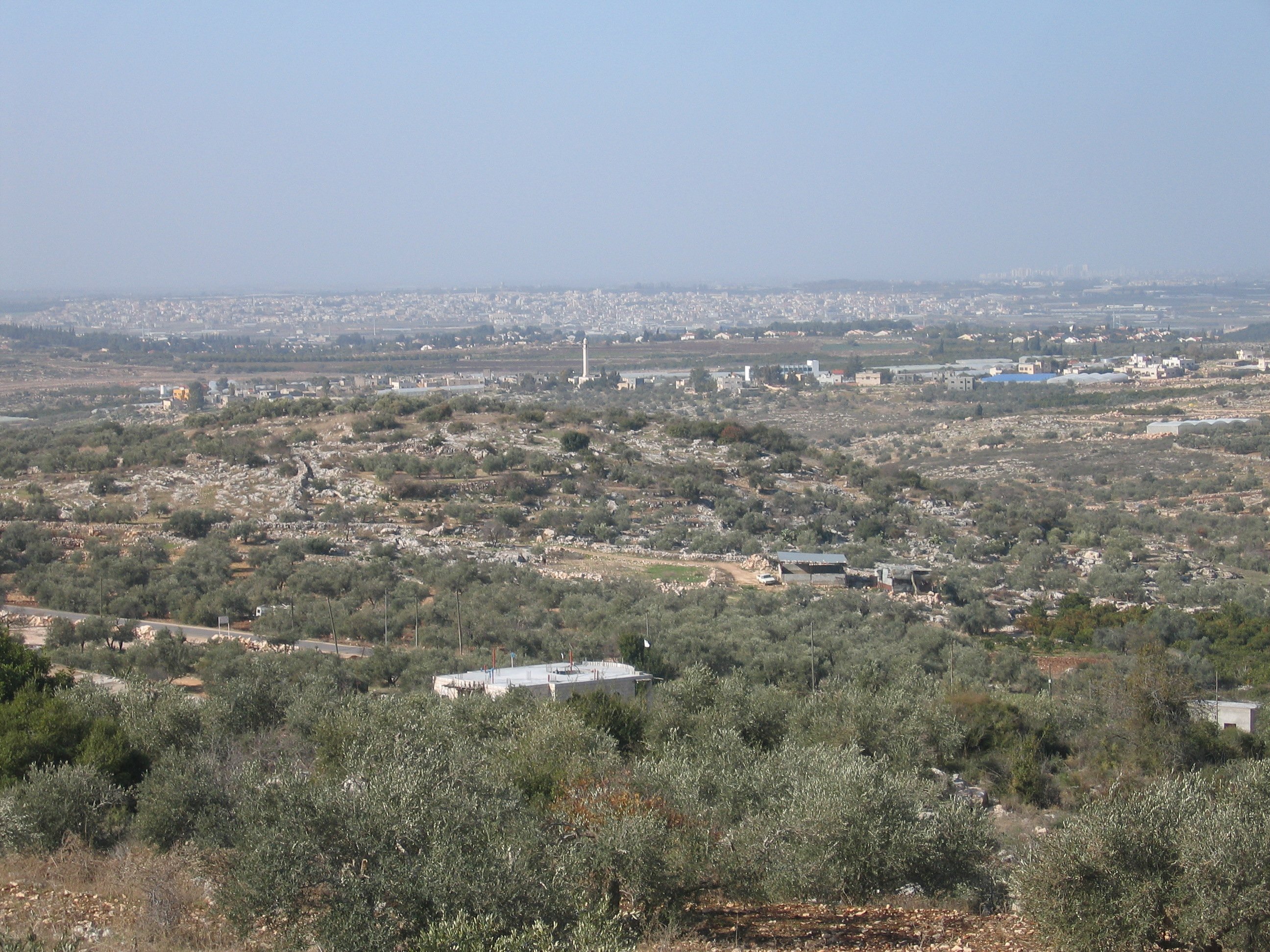 A fram in Kufr Jammal, Palstine. By me. Behind the farm is the small villiage of Falamya, identified by the mosque Minert. Behind Falamya between the trees are the houses of Kochav Yair. Behind Kachav Yair is the Israeli arab city of Tira. Behind that in the skyline on the right is Netanya.